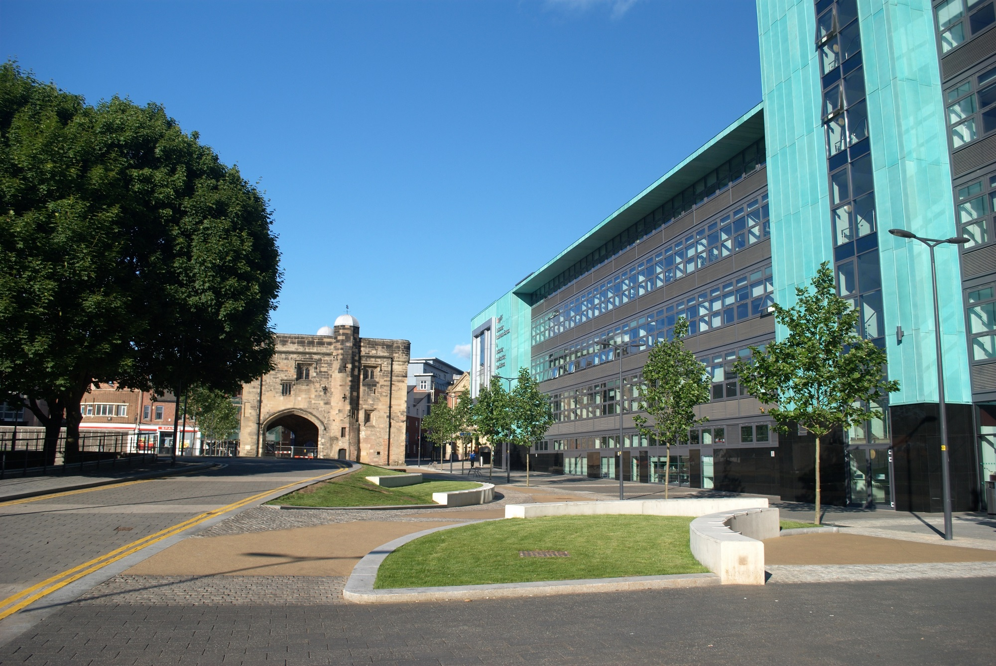 Magazine Square, showing the Leicester Magazine and buildings of De Montfort University